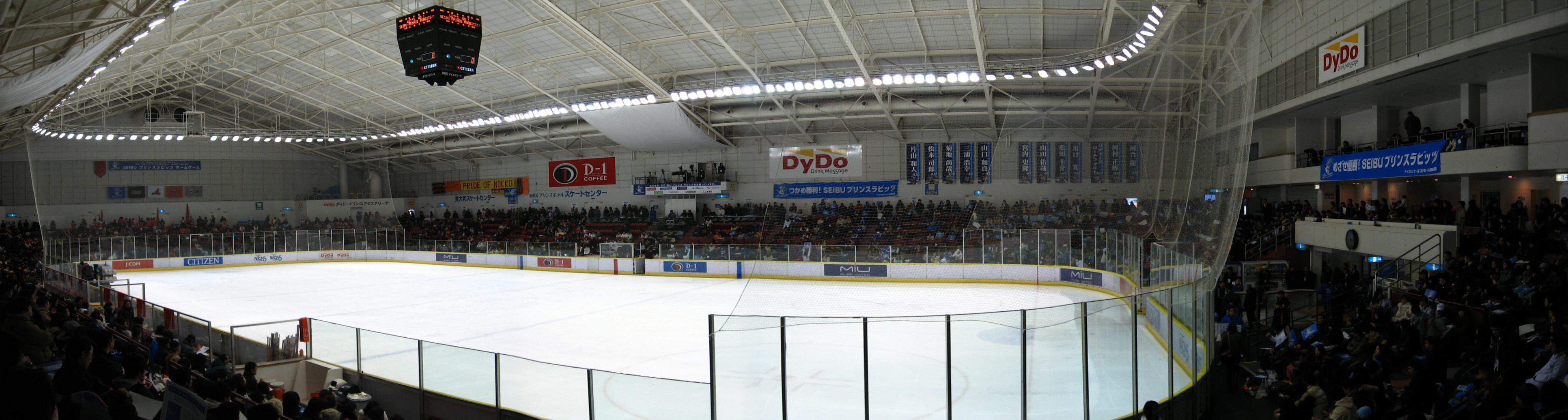 DyDo Drink Higashifushimi Ice-arena Rinks.